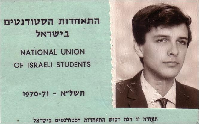 National Union of Israeli Students, student card 1970